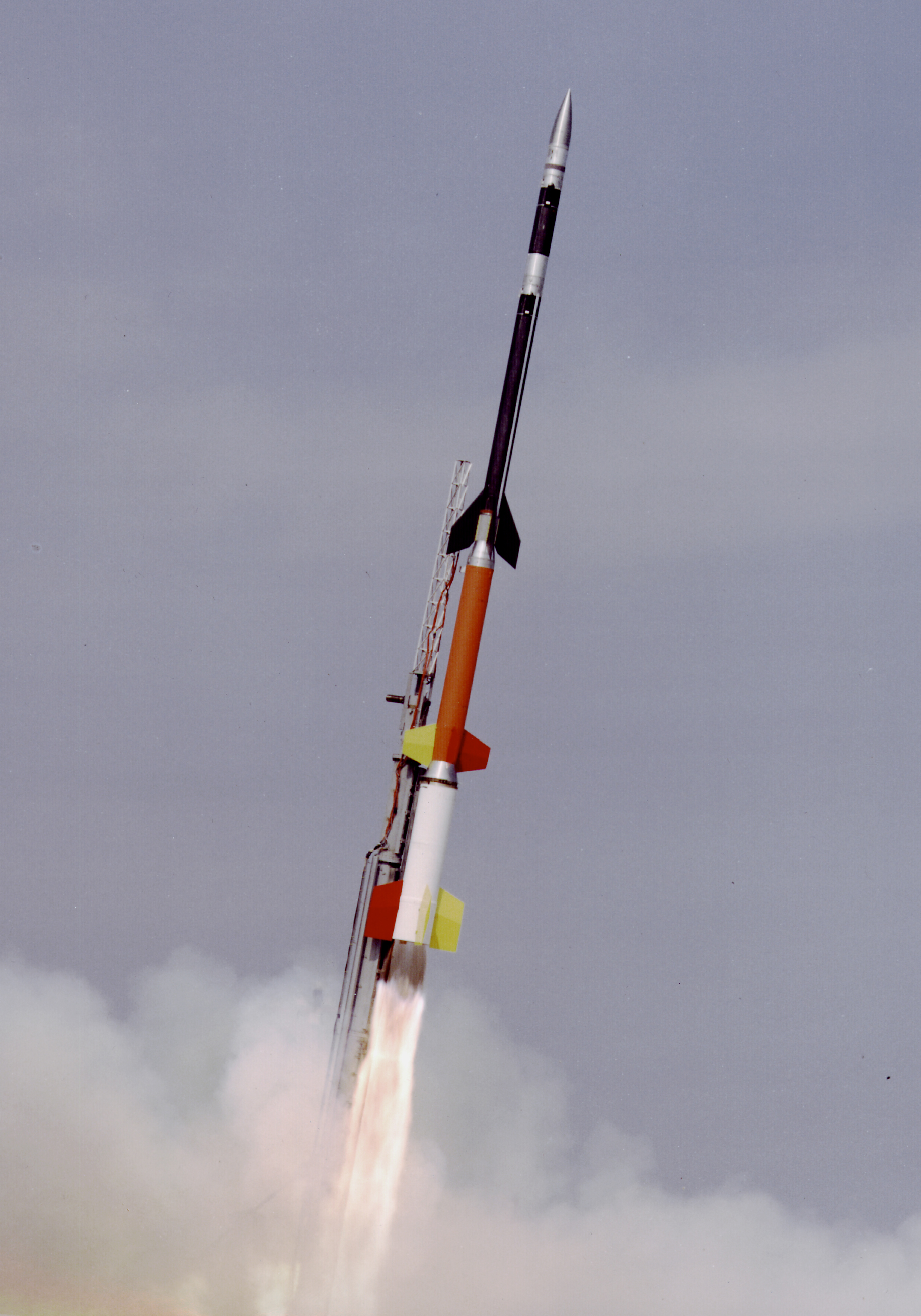 The four-stage Black Brandt shown here blasting off from a launch pad at the Wallops Island Flight Facility in rural Virginia is at 66 feet (20 meters), the tallest of NASA's 13 sounding rockets. These rockets can carry scientific payloads of various weights up to 1,213 lbs. (550 kg) to altitudes from 30 miles (48 km) to more than 800 miles (1,287 km). Researchers like to use sounding rockets because they offer an inexpensive means for conducting space, microgravity and Earth science research and have proven to be invaluable test beds for new technologies. The Wallops facility conducts about 35 launches per year.